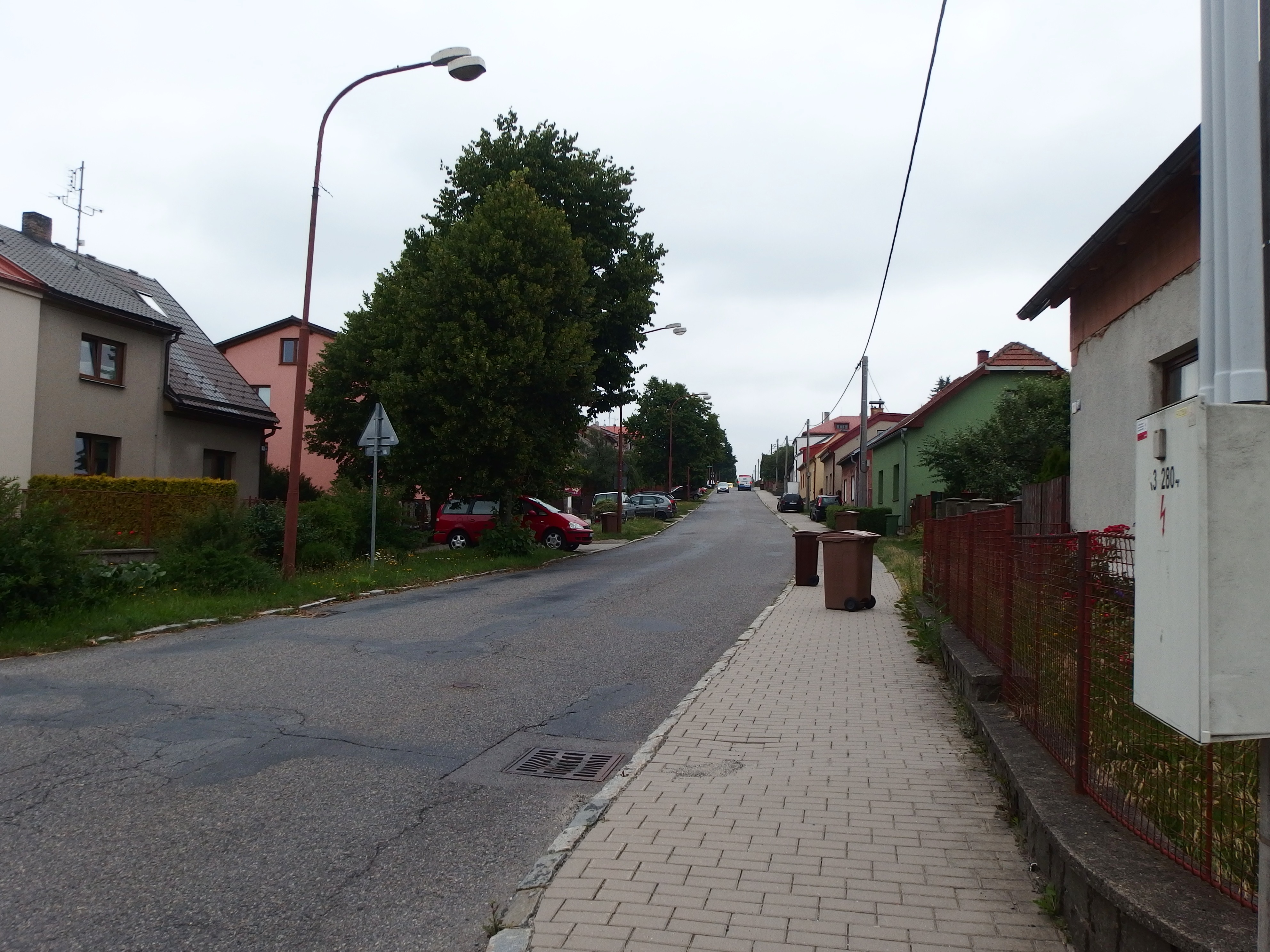 Žďár nad Sázavou, Czechia.